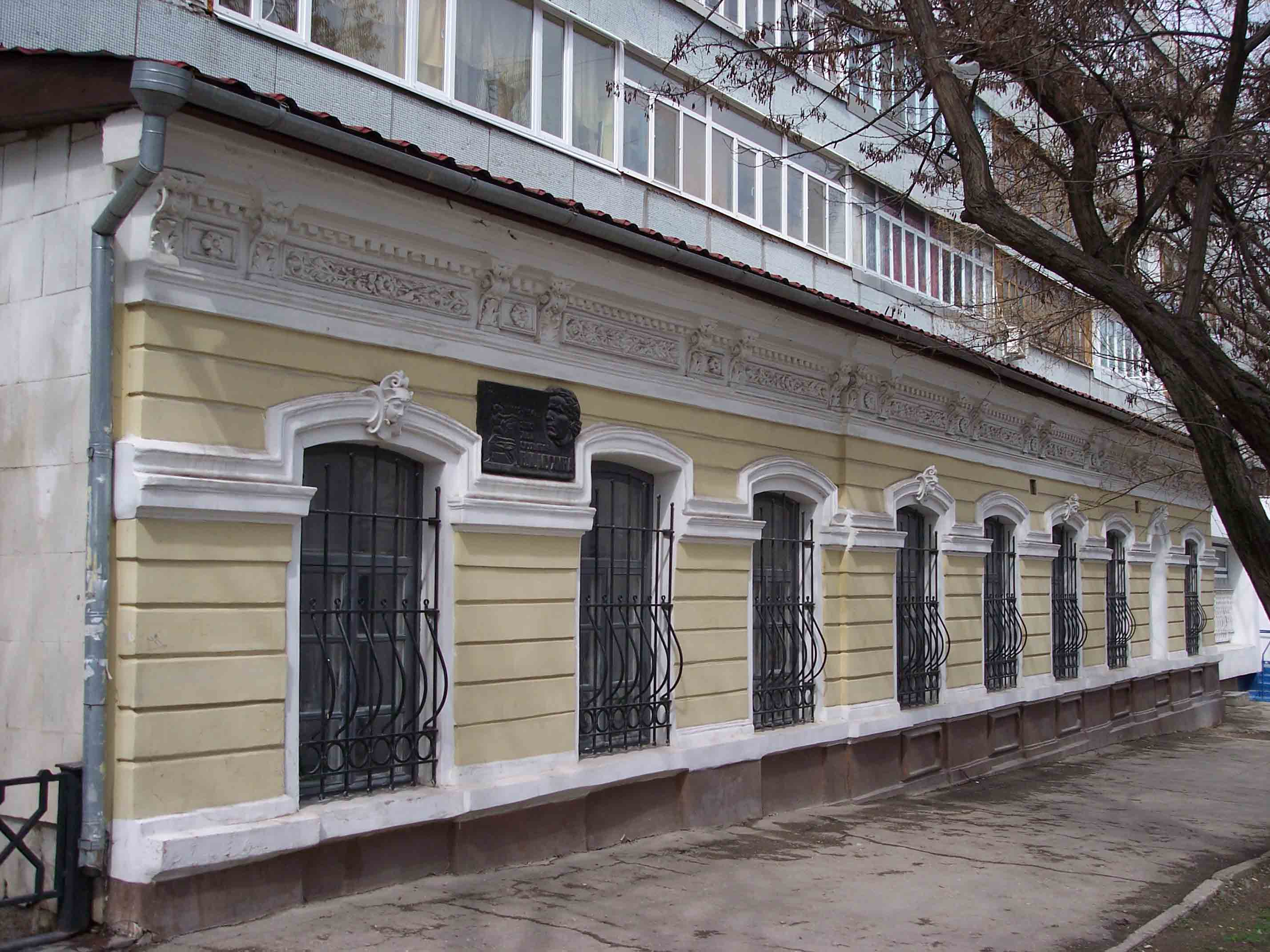 Wall of the Muhina's house, Fedko St.,1, Feodosia, Crimea